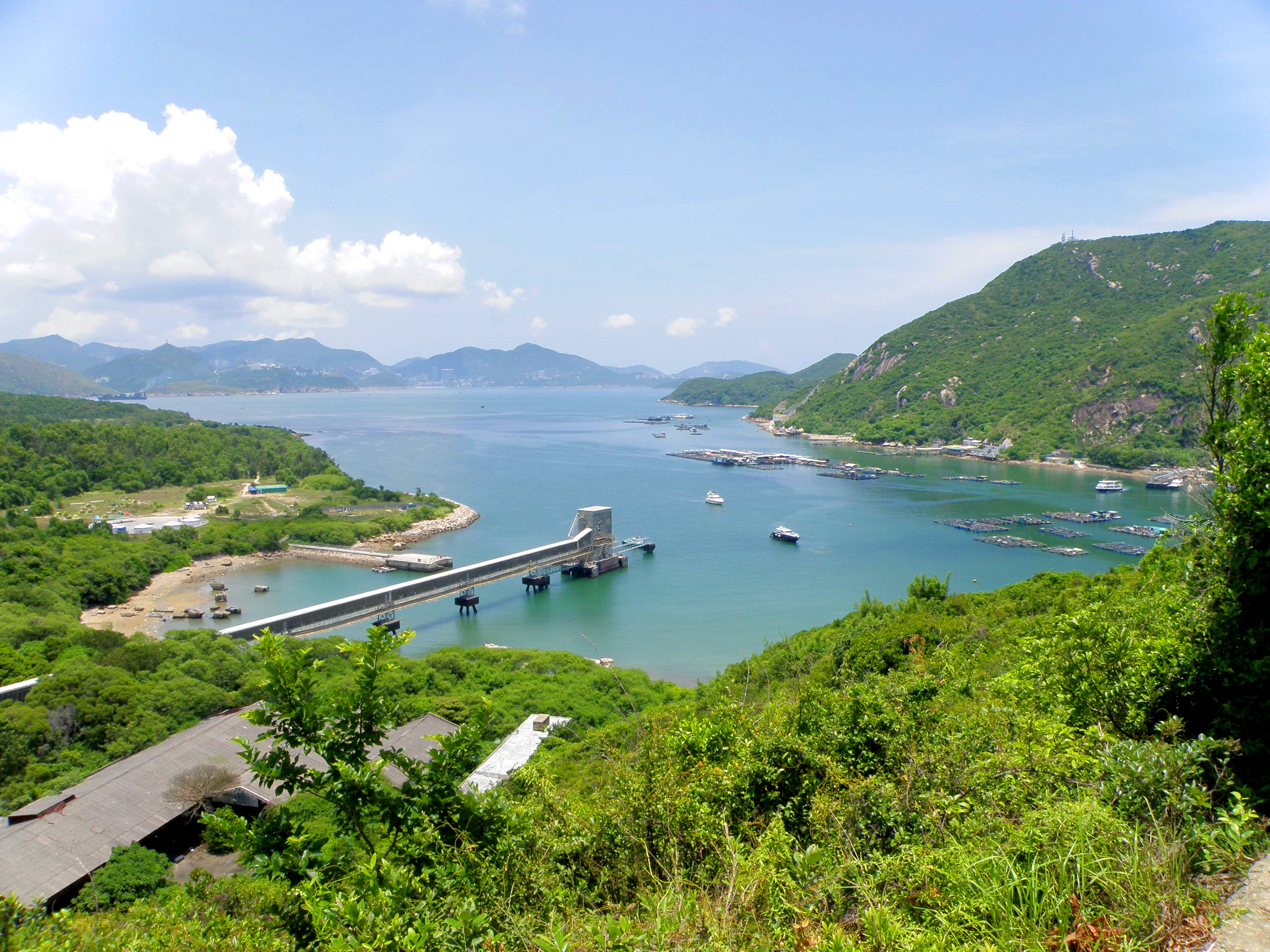 Sok Kwu Wan in Lamma Island, Hong Kong.